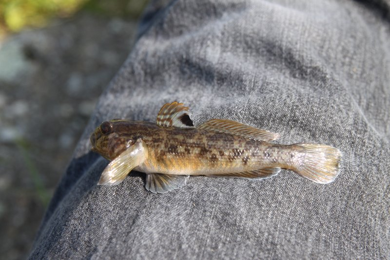 Neogobius melanostomus on a leg